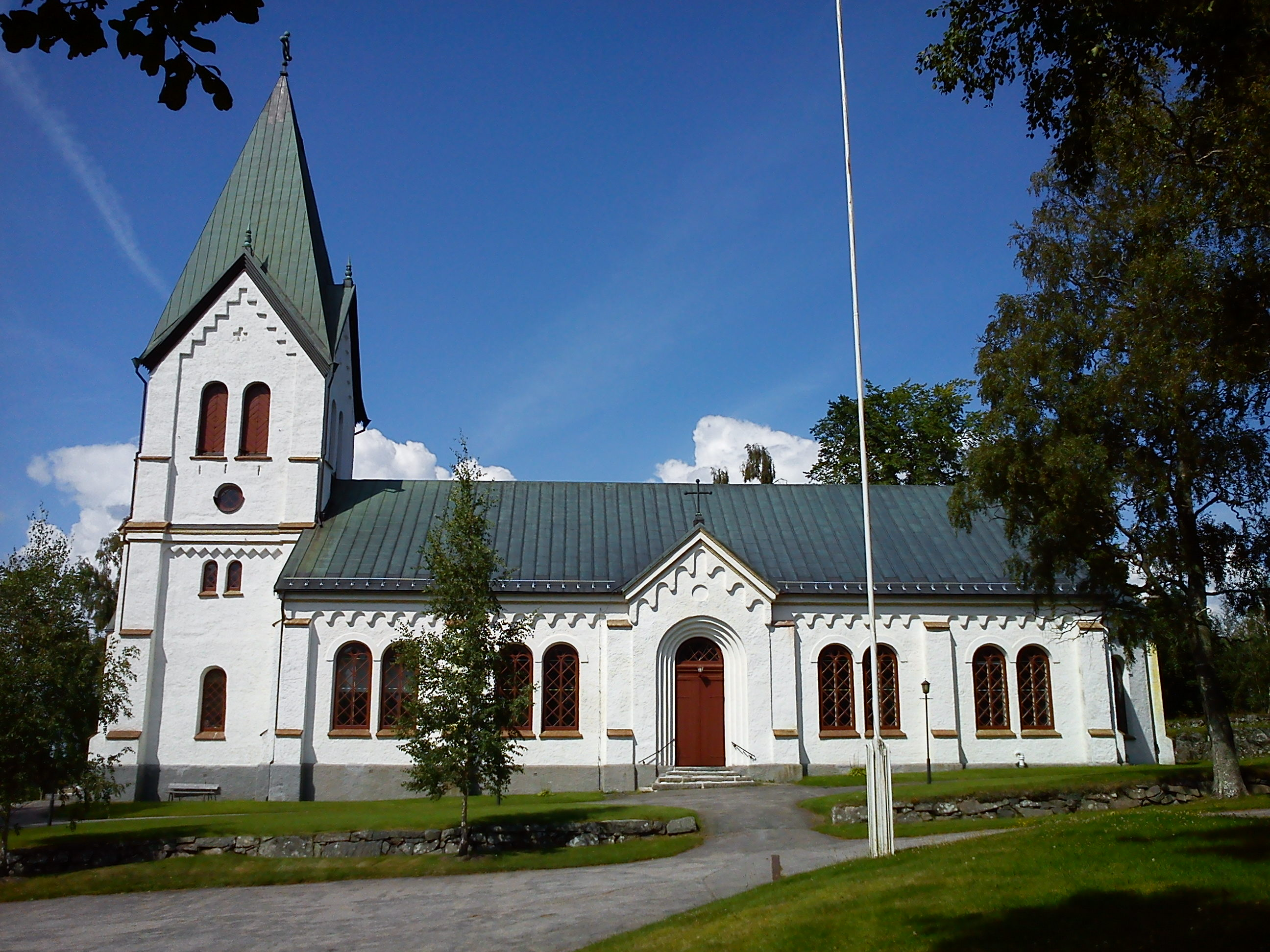 The church of Lane-Ryr (Uddevalla, Sweden). Photo taken from south.